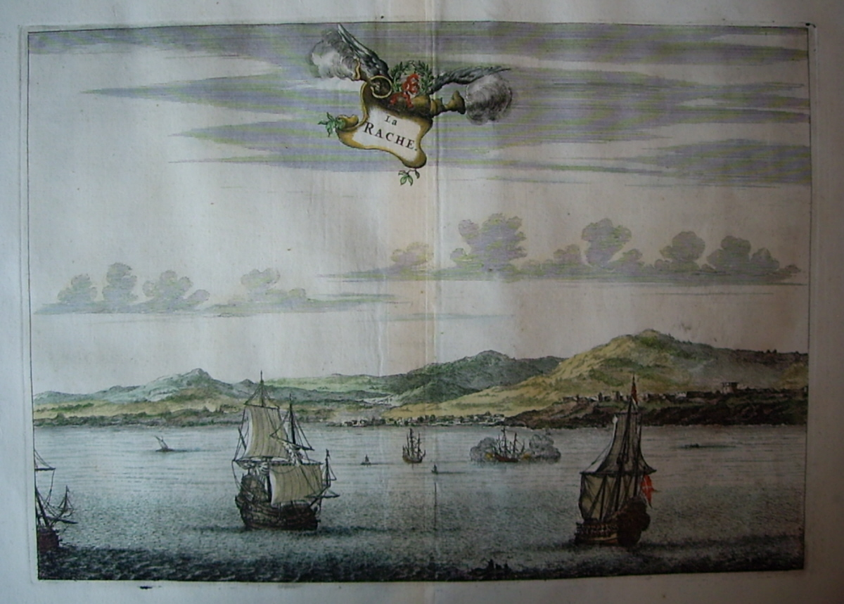 Early copper plate engraving 'La Rache' Africa by John Ogilby (1600-1676). Published in London by Johnson in 1670 this picture comes from ' Africa being an Accurate Description of the Regions of Aegypt, Barbary, Lybia and Billedulgerid ...